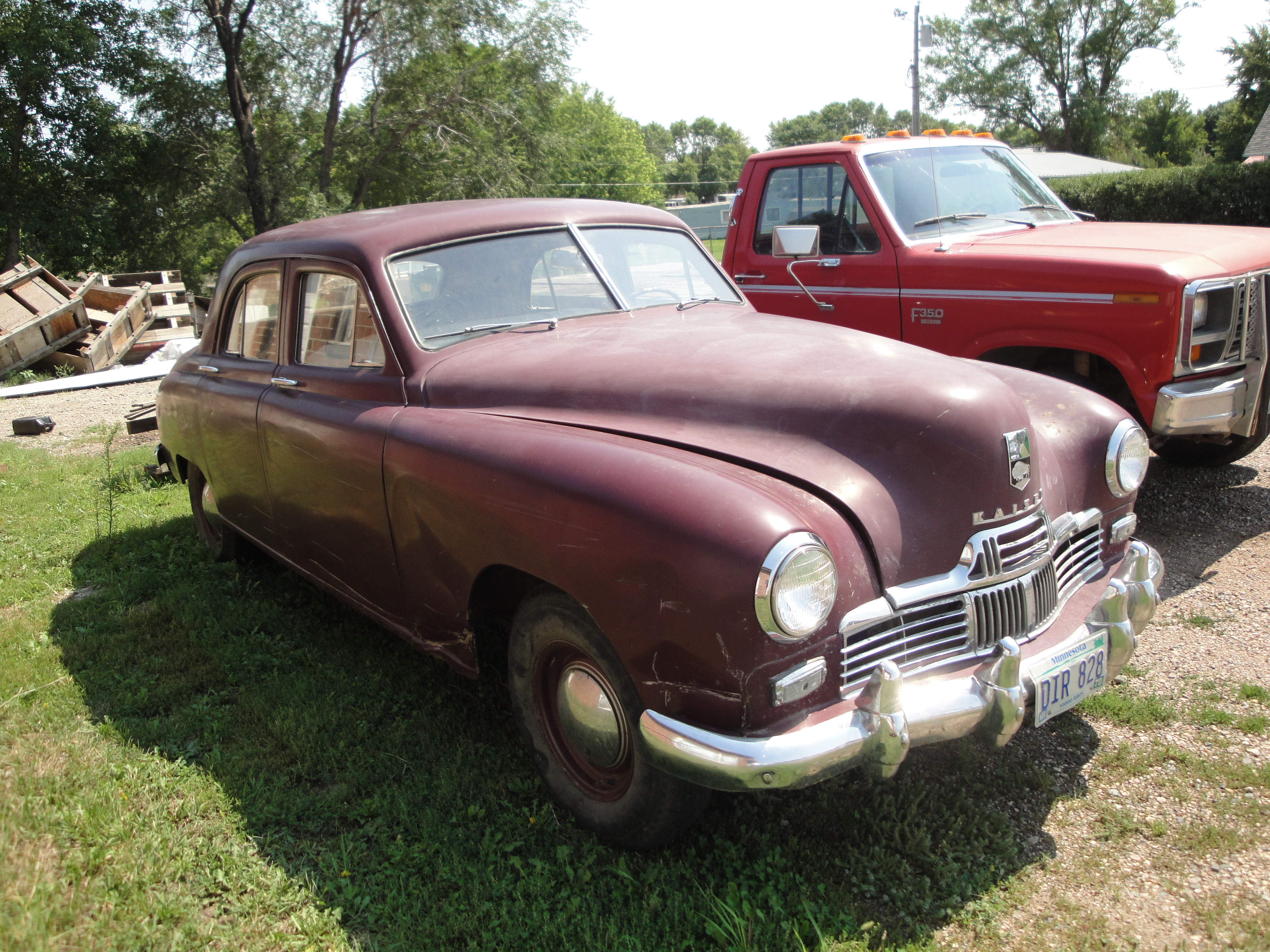 with A/C (air conditining)